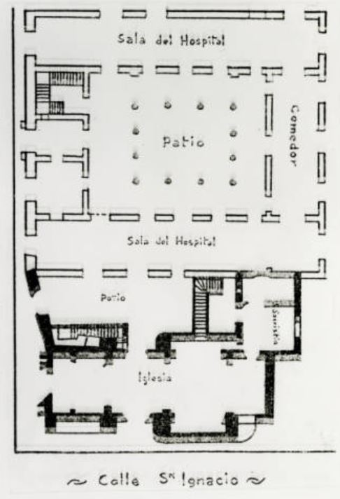 Hospital and Iglesia San Francisco de Paula (Havana, Cuba)